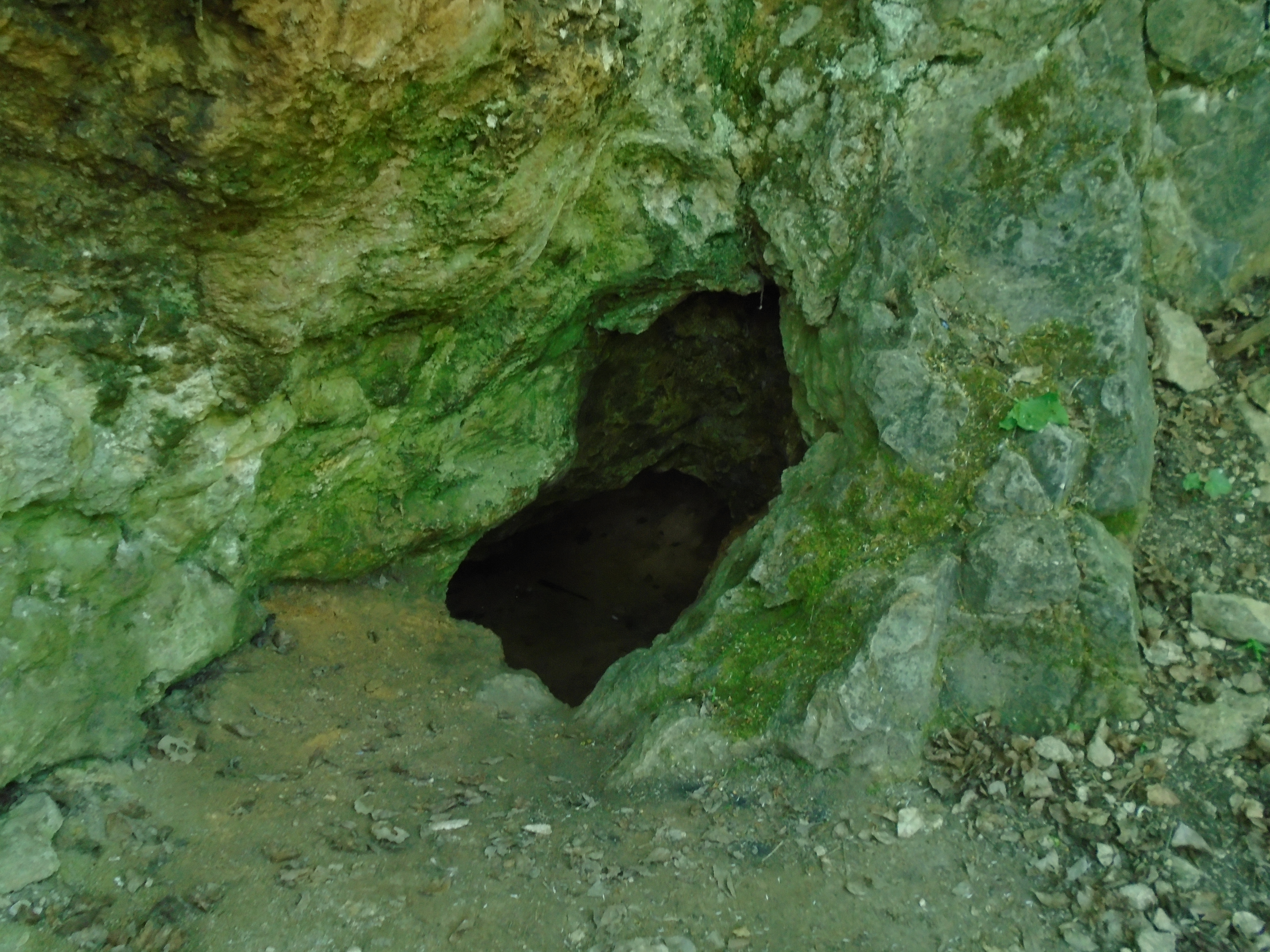 Entrance of Keleti quarry No 15 Cave.